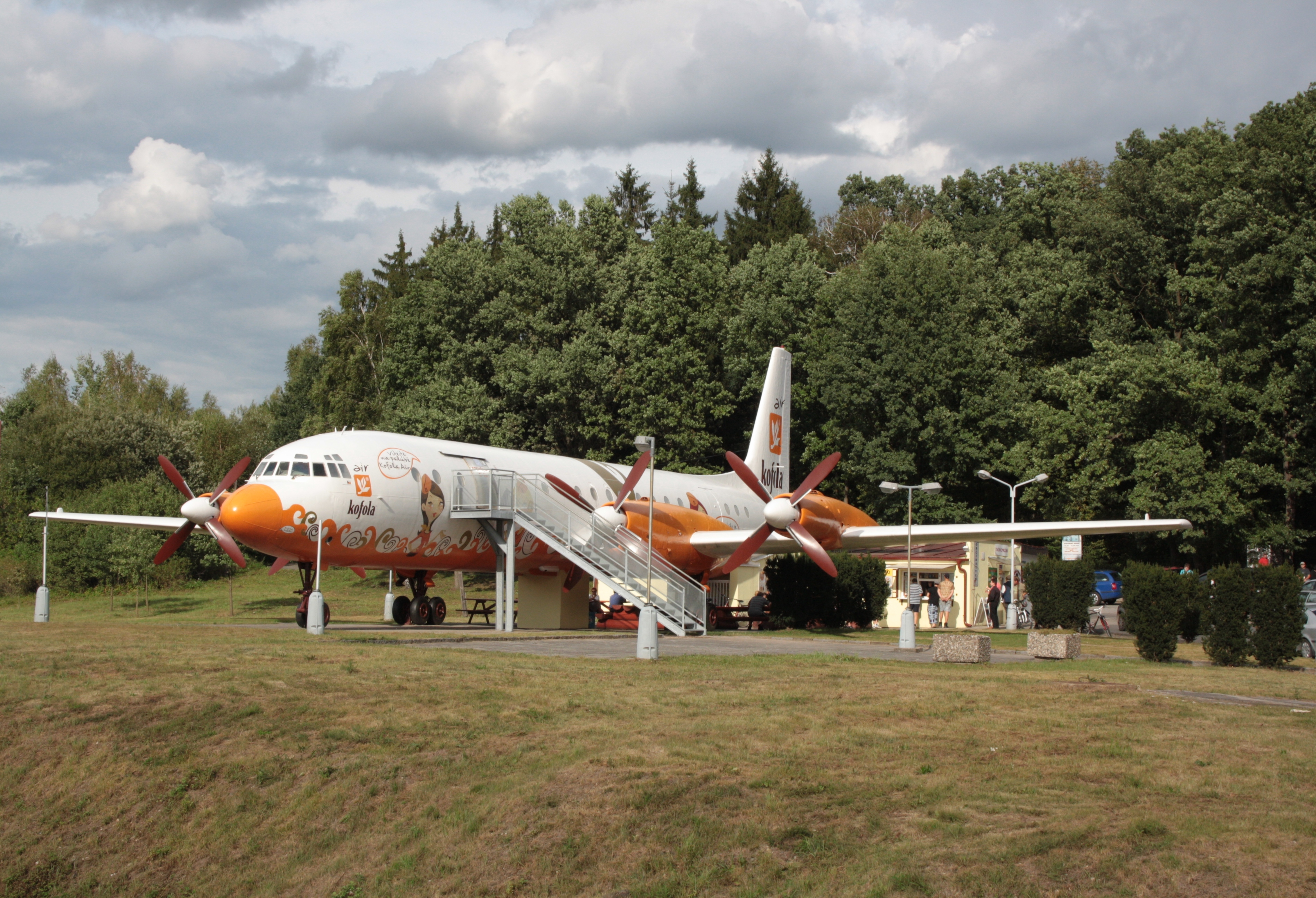 Ilyushin Il-18 as restauration at expressway R10 in the Czech Republic. This photograph was taken with a DSLR from WMCZ's Camera grant.